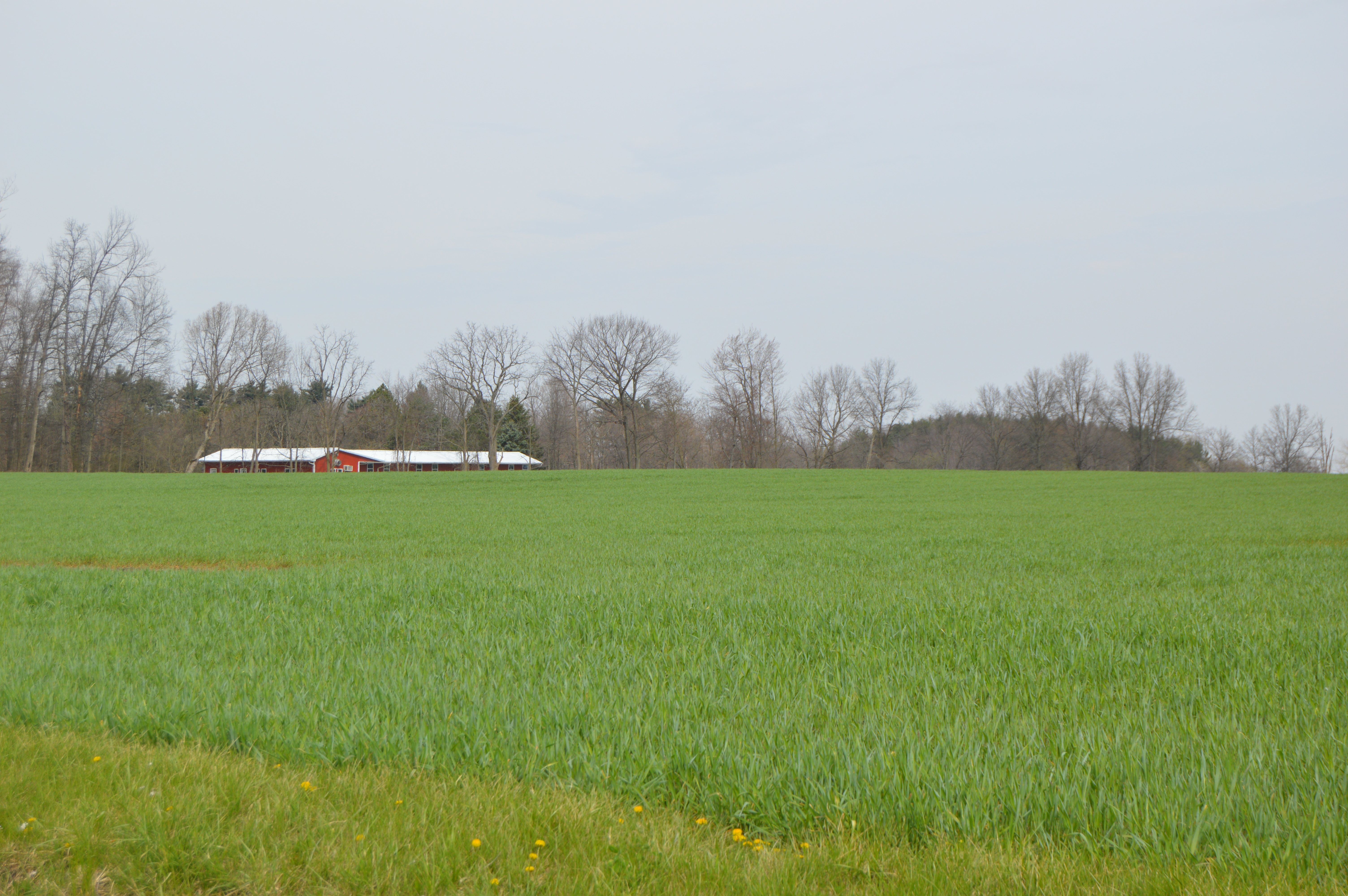 Fields and woods on the northern side of Dinninger Road west of Kuhn Road in Plymouth Township, Richland County, Ohio, United States.